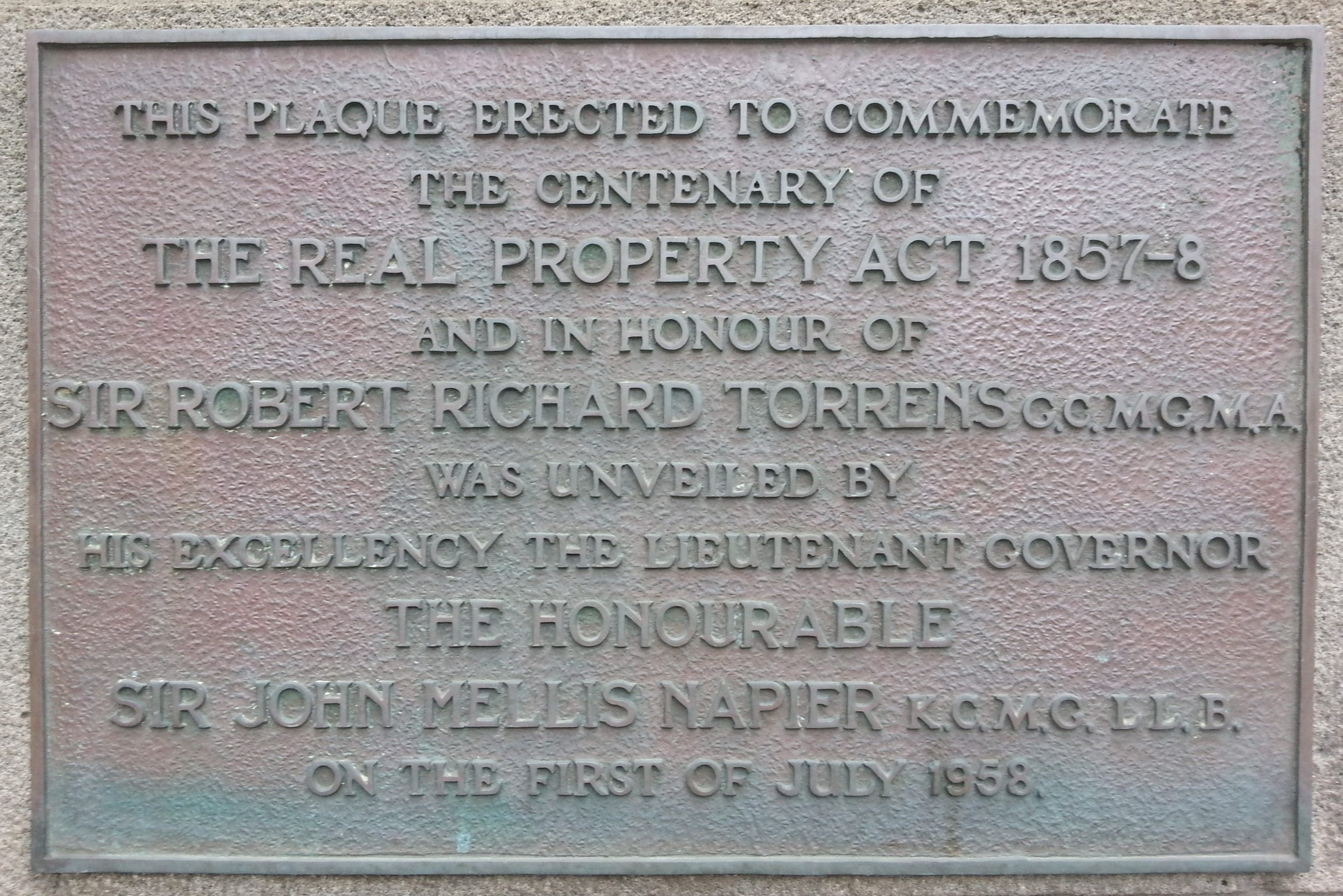 Image of plaque commemorating the centenary of the Real Property Act located on external wall of the Torrens Building, Adelaide, South Australia